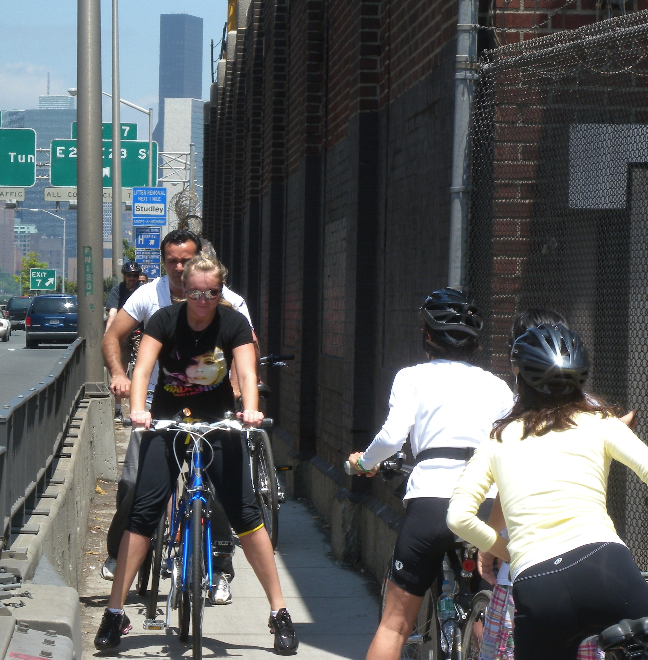 Looking north at the East 14th Street powerplant choke point of the East River Greenway on a sunny midday.